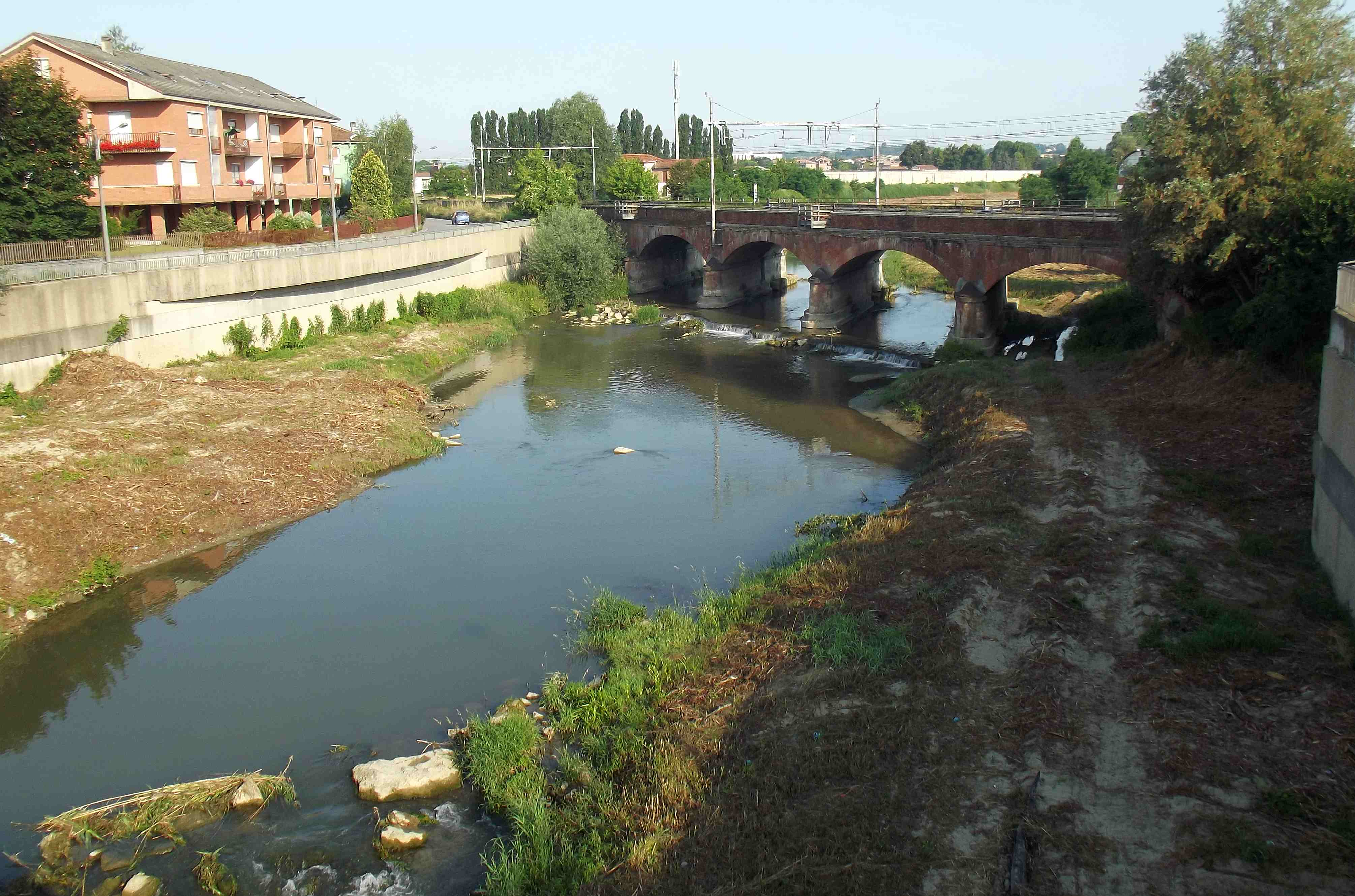 The Borbore in Asti (Italy) and the bridge of the Turin-Genoa railway